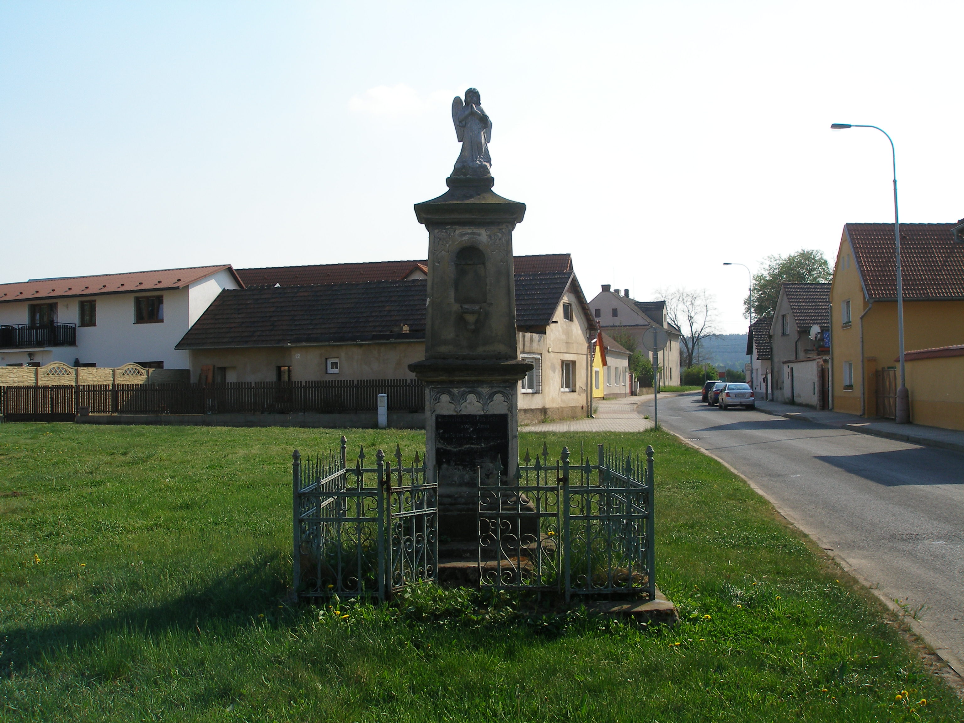 Calvary in Horní Počaply.